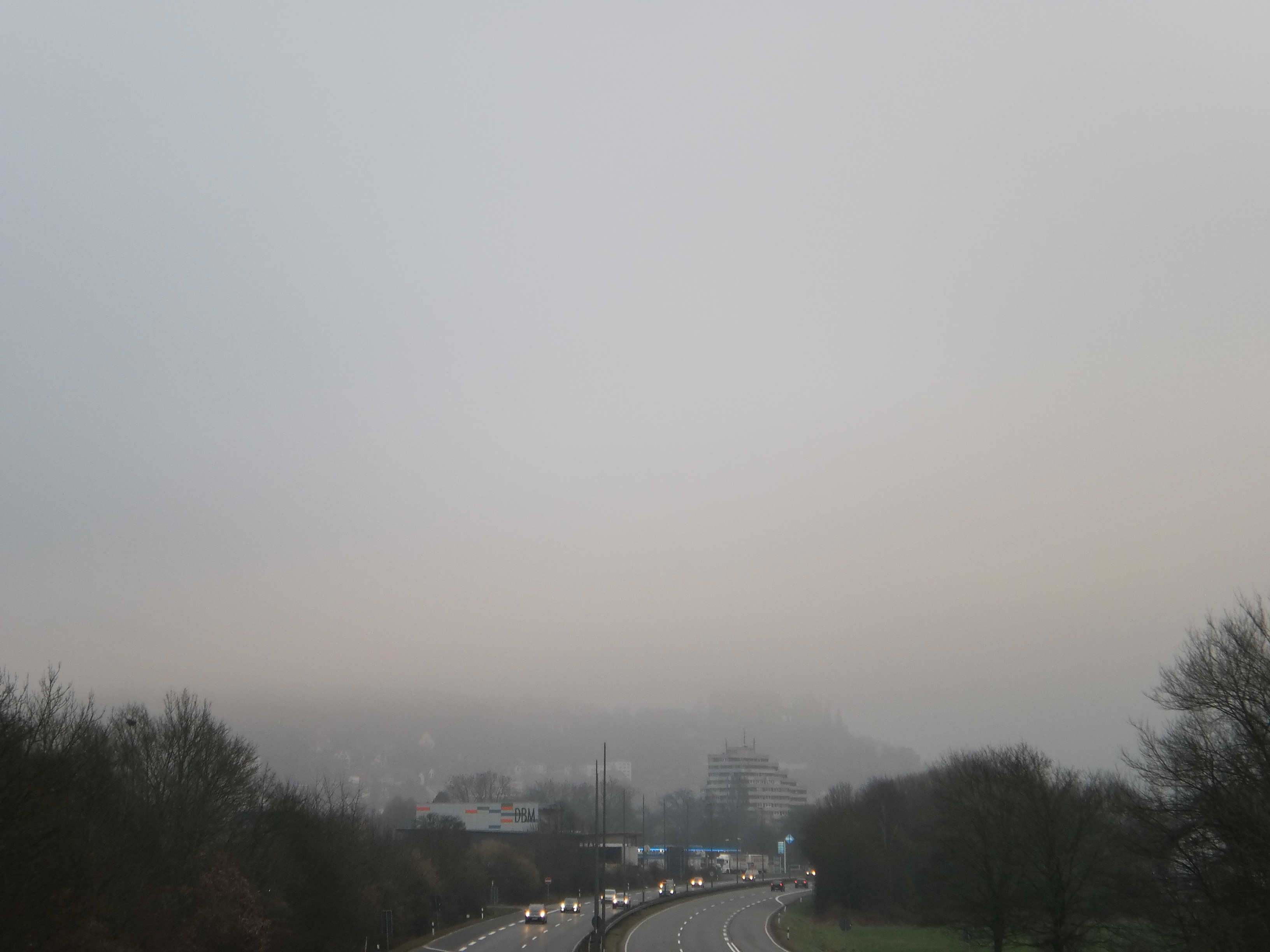 Hello this is Marburg and the not visible castle! Fog you Goethe and the Brothers Grimm (they liked the up and down with streets and stairs in Marburg so very much - and moved to Kassel!), the main building in that city here is 'Affenfelsen' (monkey rock). Photo taken on a foggy afternoon in the valley between Marburg and Gießen from a bridge in the South of old town.